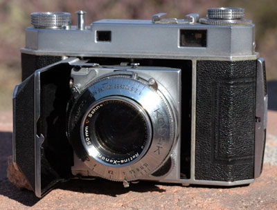 Photo © by Jeff Dean